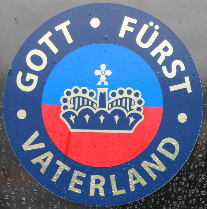 Sticker God - Prince - Fatherland, Principality of Liechtenstein, Europe